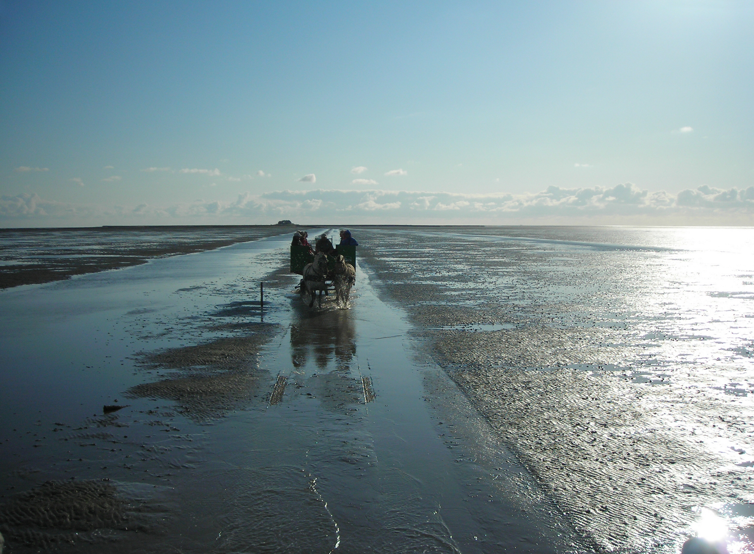 Horse cart in the Wadden Sea (German foreshore) near the small island of Südfall.